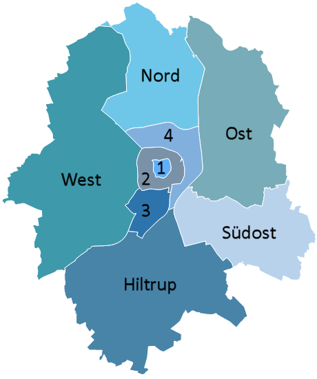 Münster districts